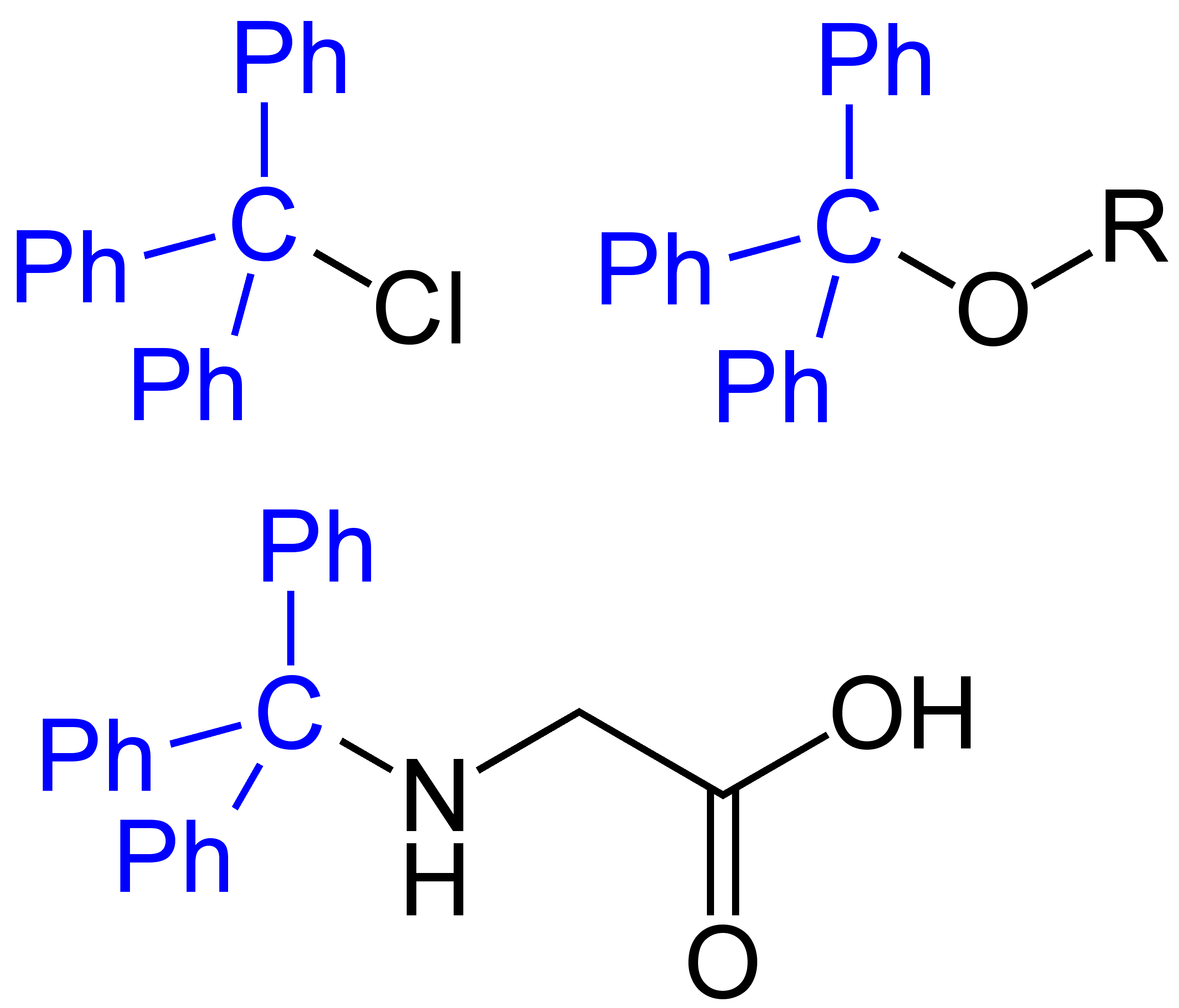 Trityl_Group